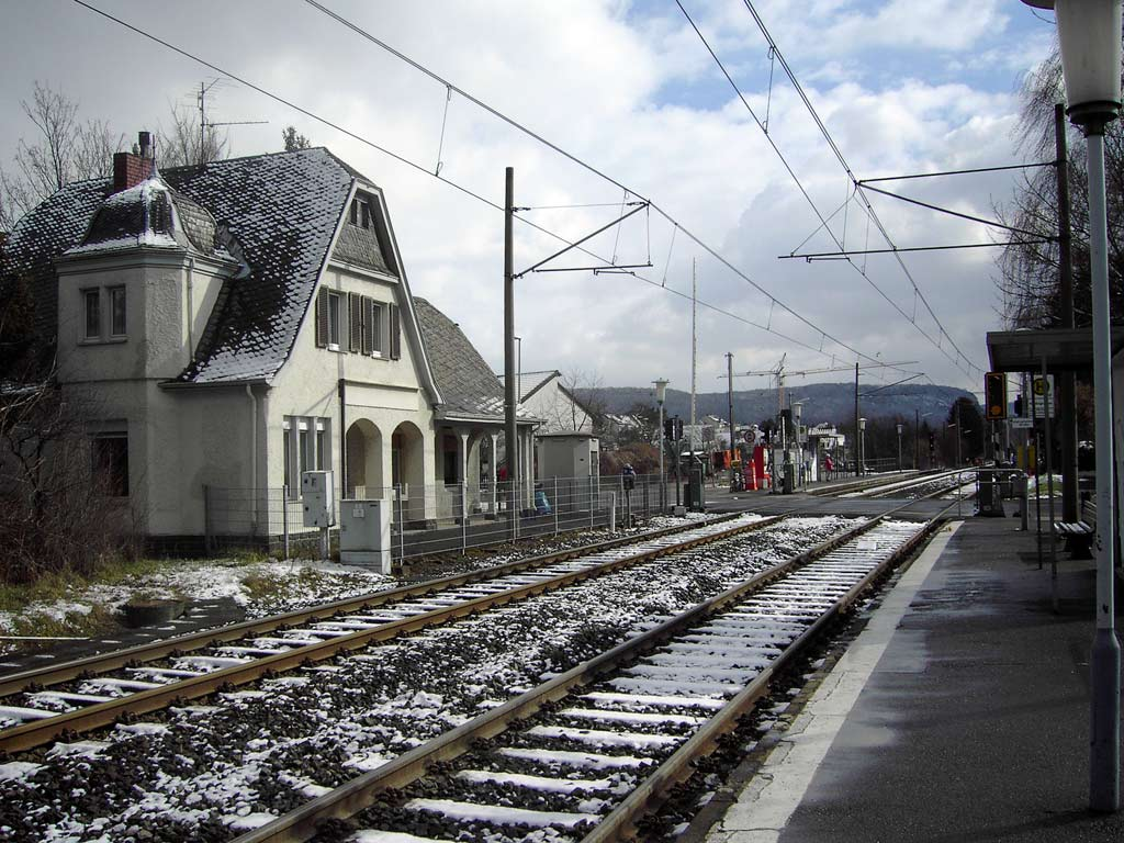 Stop Küdinghoven of the tram line 62 with the former station building in Bonn.